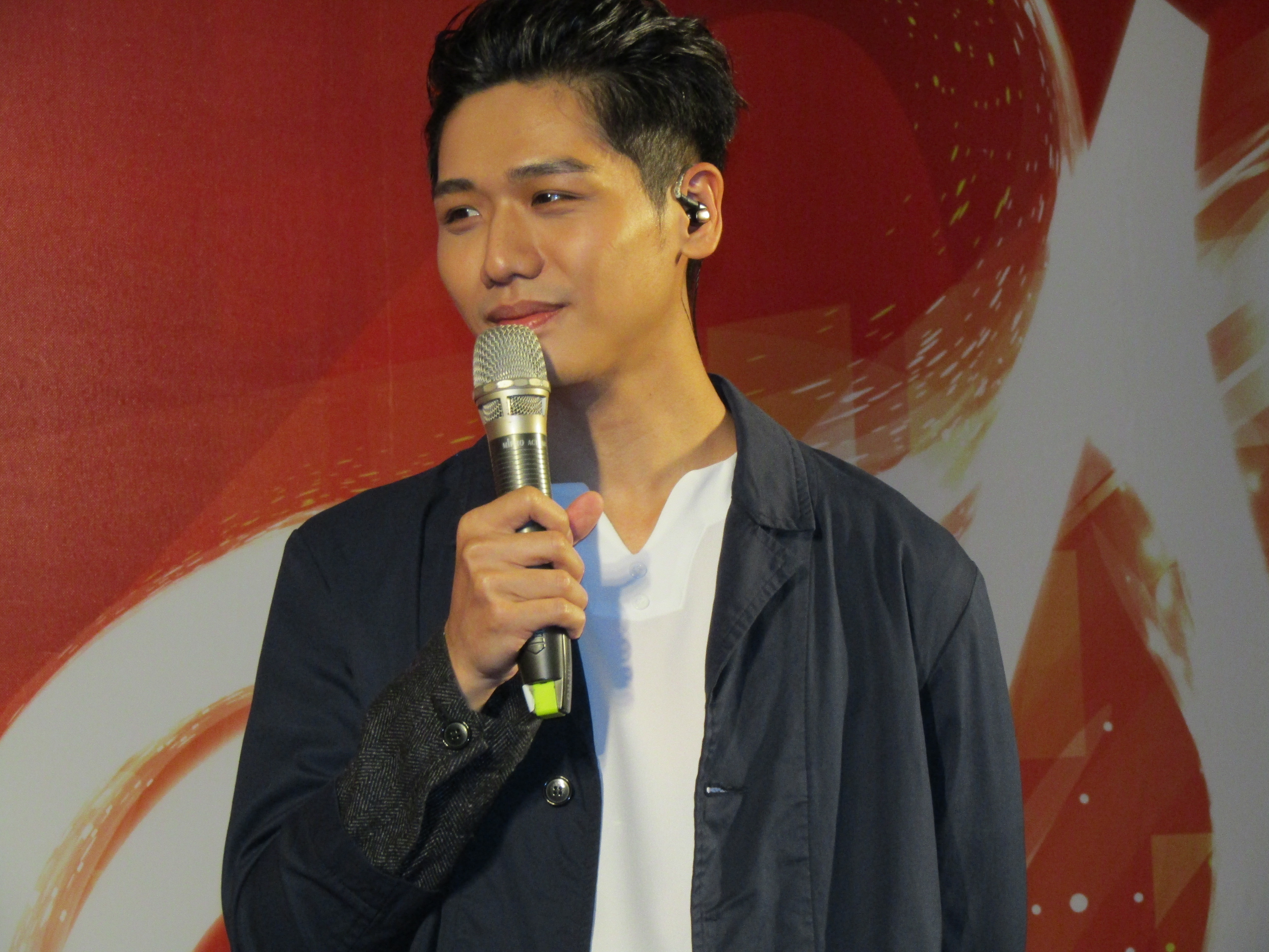 Evan Yo is in Huashan 1914 Creative Park